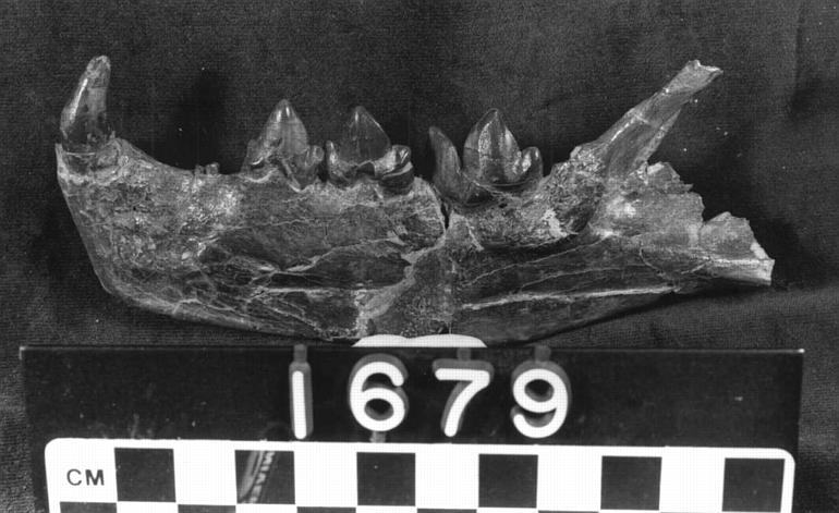 Nimravus brachyops (formerly Archaelurus debilis) jaw, University of California Museum of Paleontology